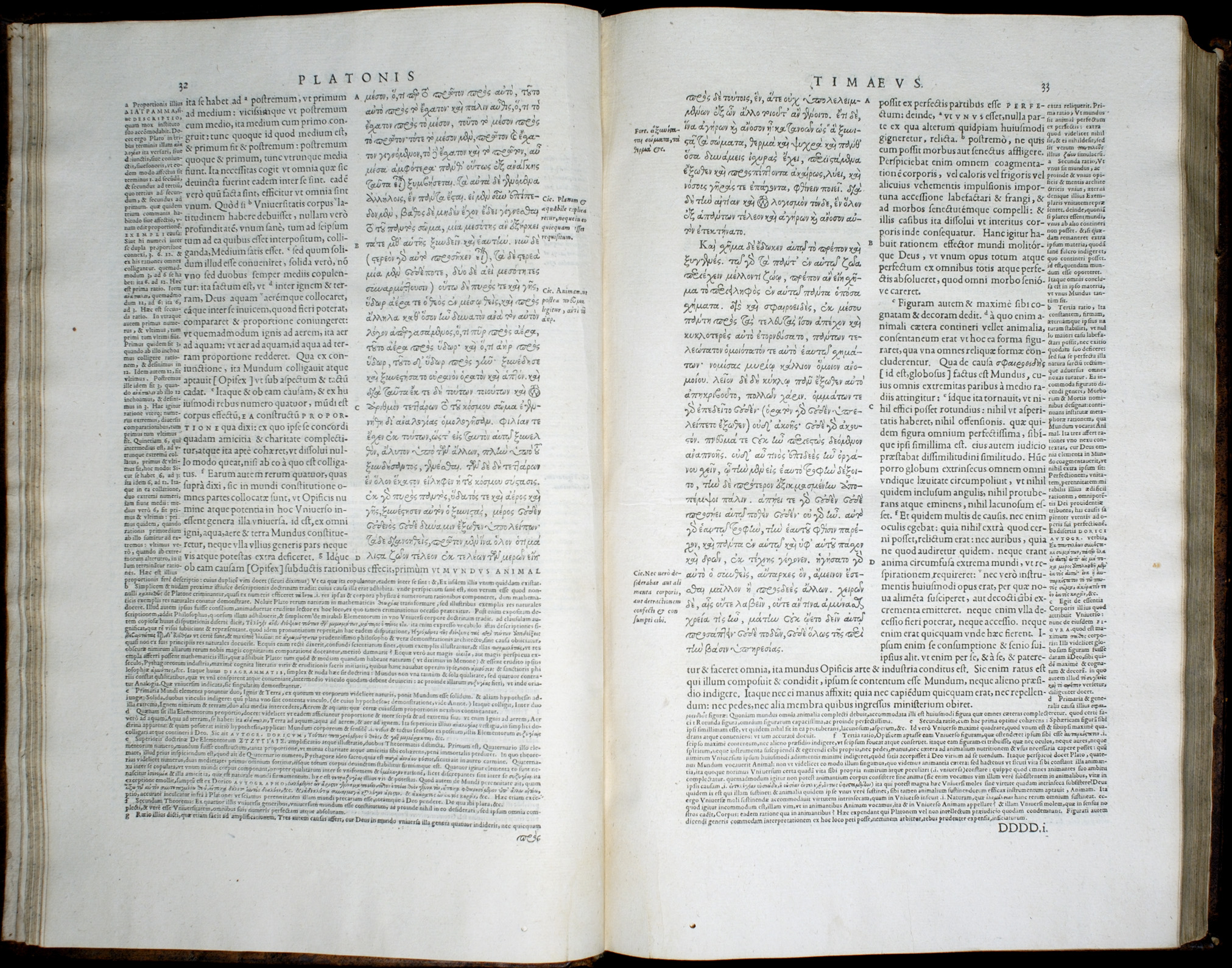 1Image of pages from 1578 Stephanus edition of Plato's works From Licensing This is a faithful photographic reproduction of a two-dimensional, public domain work of art. The work of art itself is in the public domain for the following reason: This work is in the public domain in its country of origin and other countries and areas where the copyright term is the author's life plus 100 years or fewer. You must also include a United States public domain tag to indicate why this work is in the public domain in the United States. This file has been identified as being free of known restrictions under copyright law, including all related and neighboring rights. The official position taken by the Wikimedia Foundation is that "faithful reproductions of two-dimensional public domain works of art are public domain".This photographic reproduction is therefore also considered to be in the public domain in the United States. In other jurisdictions, re-use of this content may be restricted; see Reuse of PD-Art photographs for details.